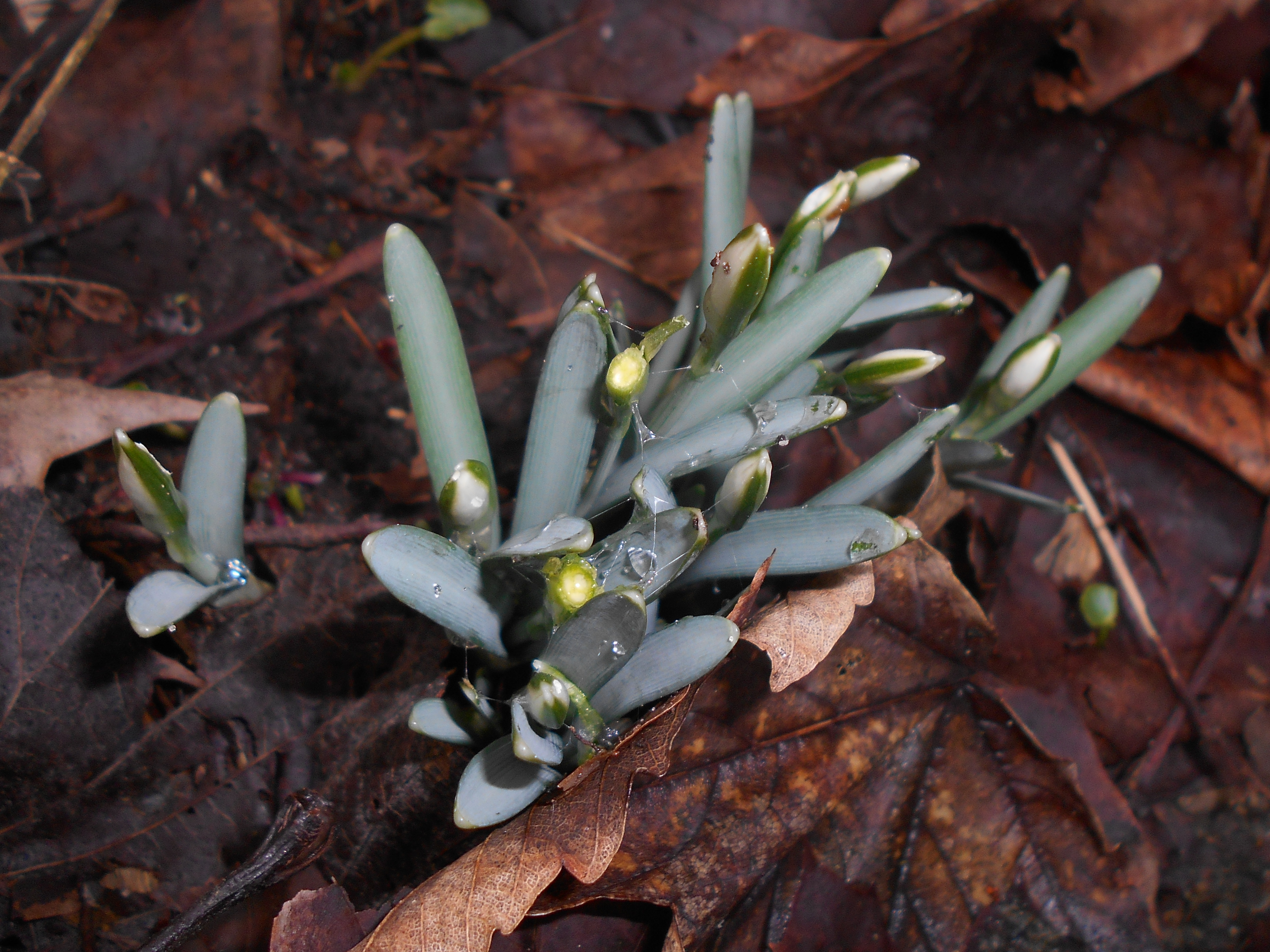 Galanthus nivalis, flower buds damaged by snails. Syrenie Stawy, Szczecin, West Pomeranian Voivodeship, Poland.